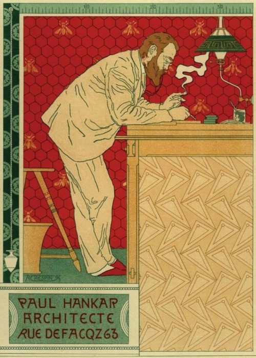 Adolphe Crespin, "Paul Hankar / Architecte / Rue Defacqz 63," chromolithograph published in Les Maîtres de L'Affiche, (Belgium, 1897), plate 91.